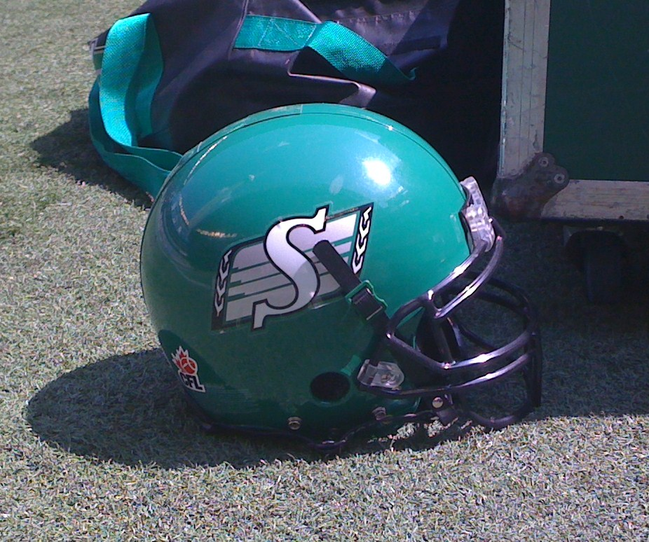 Saskatchewan Roughriders Canadian football helmet